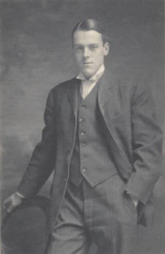 Murray Marble (1885-1919), Chess problemist from Worcester, MA